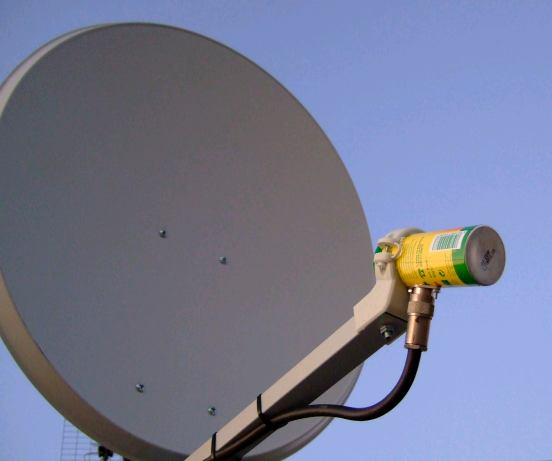 5ghz cantenna as a satellite dish feed horn.